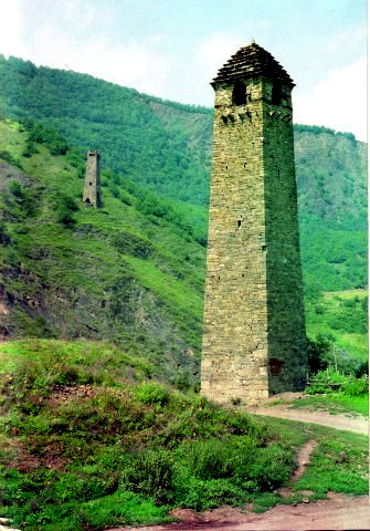 Nakh watch tower in settlement Chanta / Chante